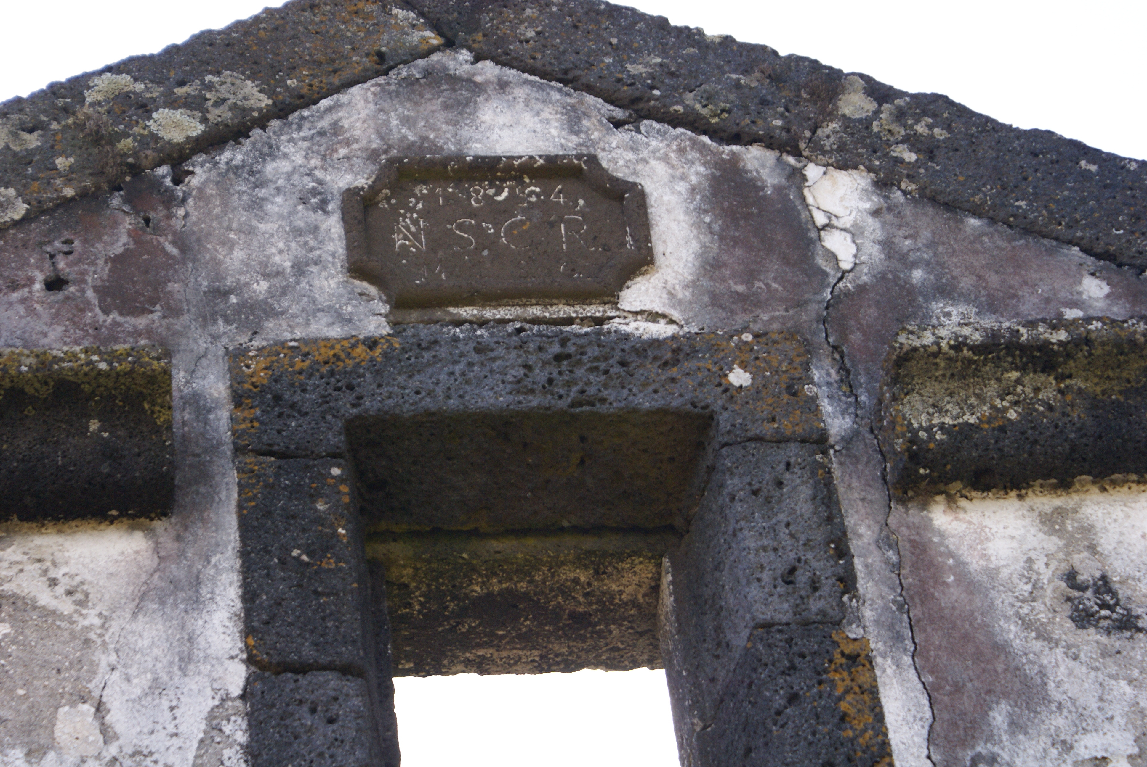 Chapel of Nossa Senhora da Conceição, Calhau, Piedade, Lajes do Pico, Pico (Azores), Portugal